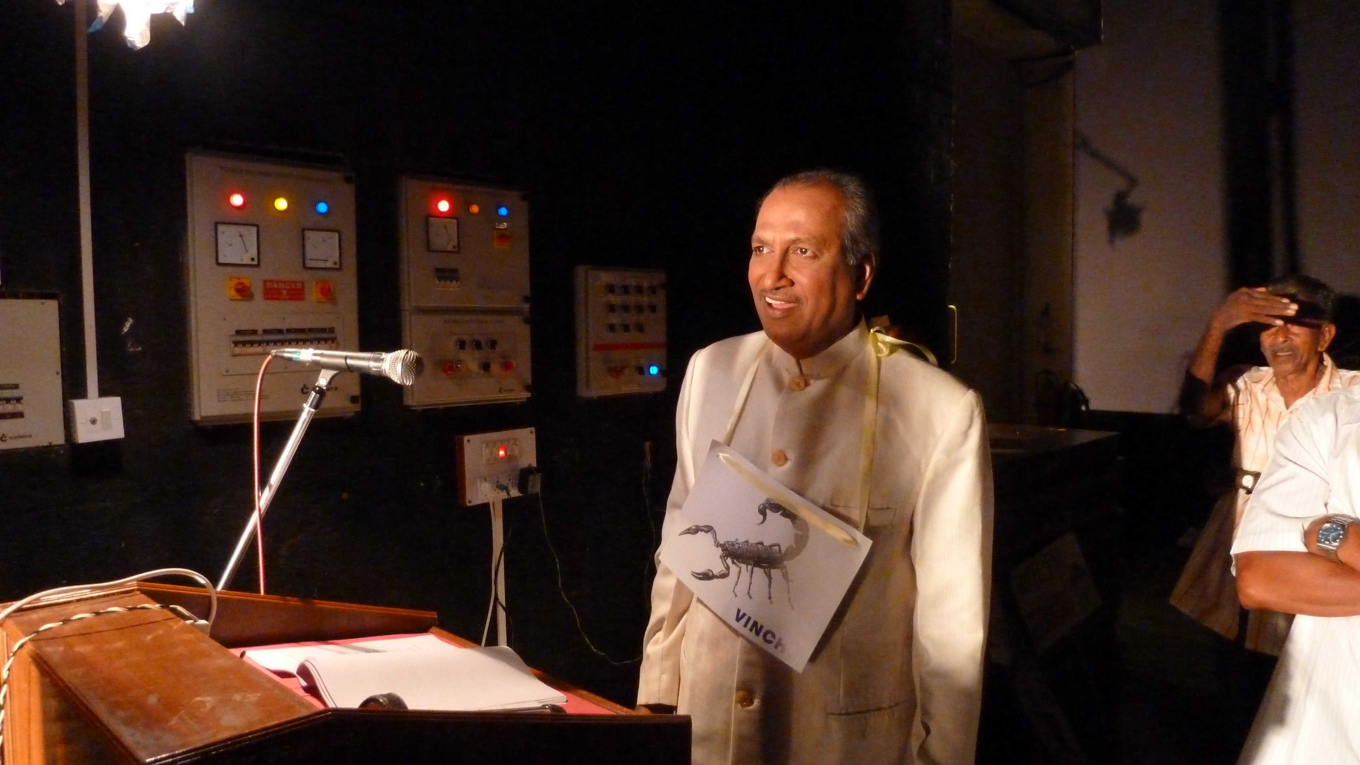 Tiatr is a popular form of Konkani theatre. Seen here is Tomazinho Cardozo.